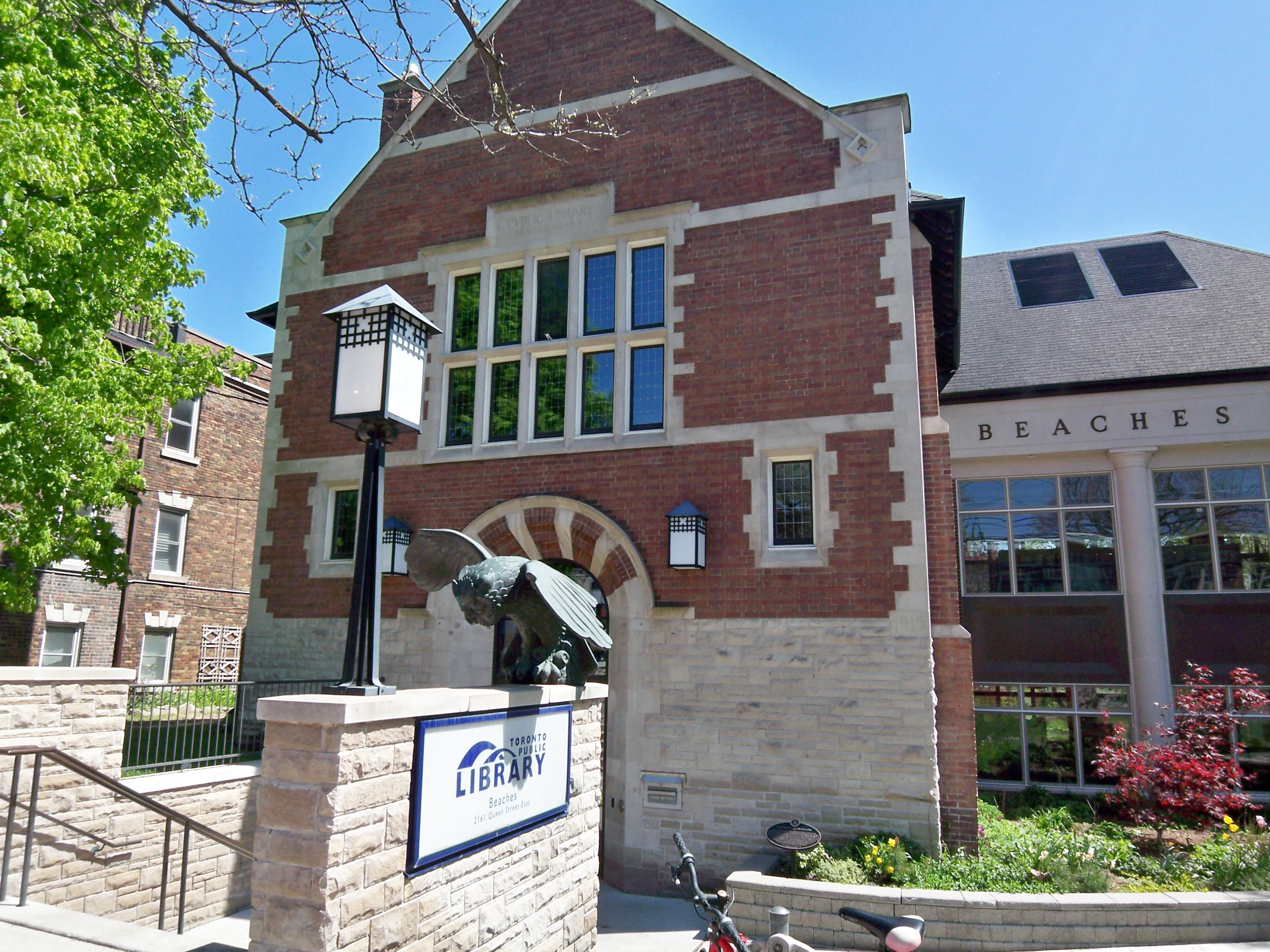 Branch of the Toronto Public Library in the Beaches, Toronto, Canada.